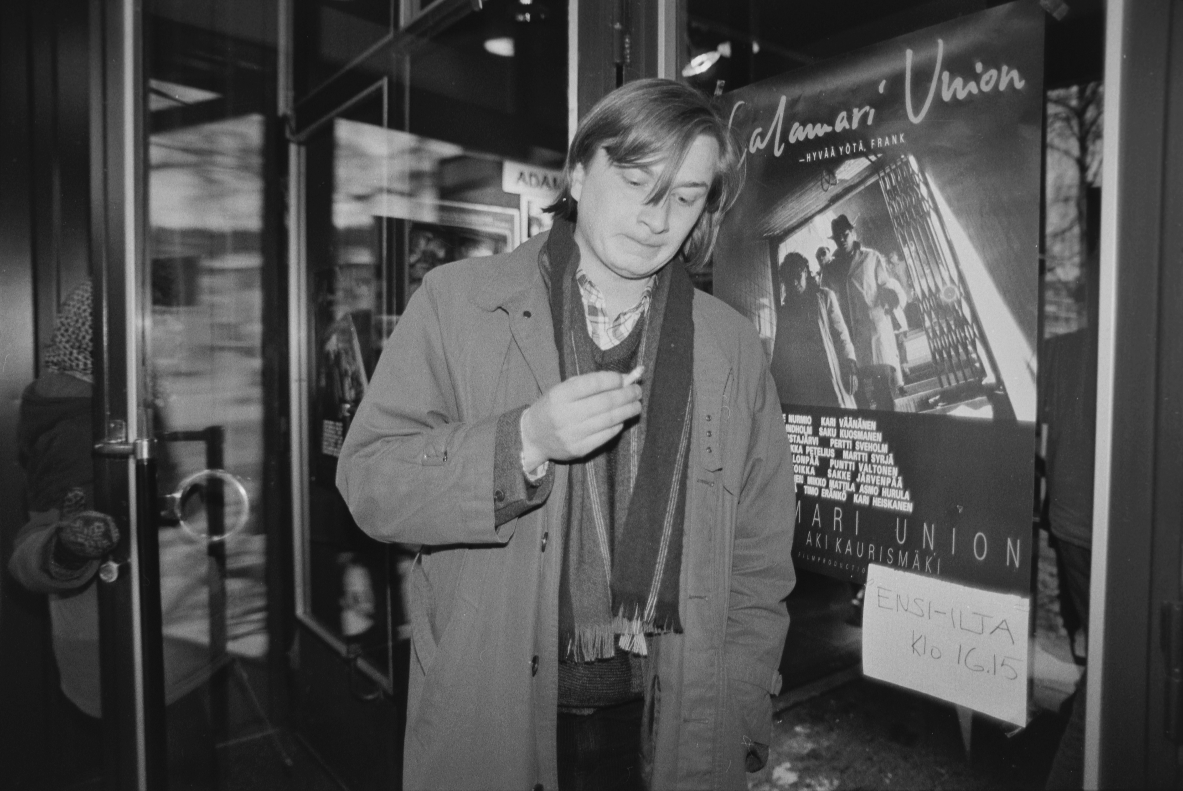 Photograph of the Finnish film director Aki Kaurismäki, standing in front of a film poster for Calamari Union.